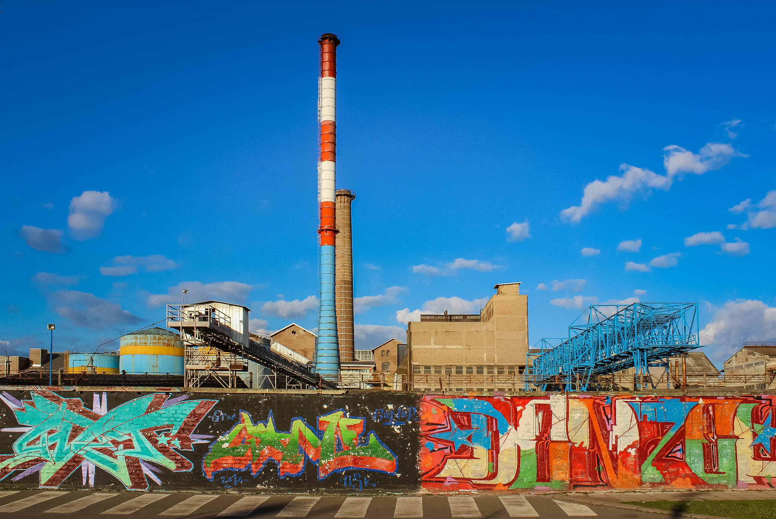 Sugar factory